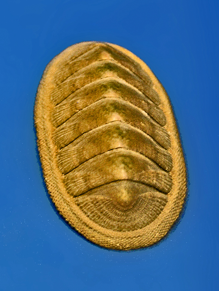 Shell of Ischnochiton evanida from Tasmania on display at the Museo Civico di Storia Naturale di Milano